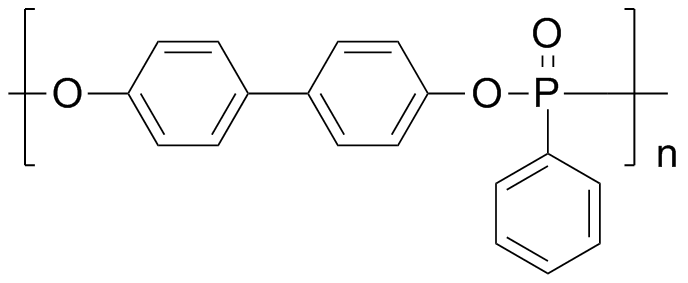 polyphosphonate